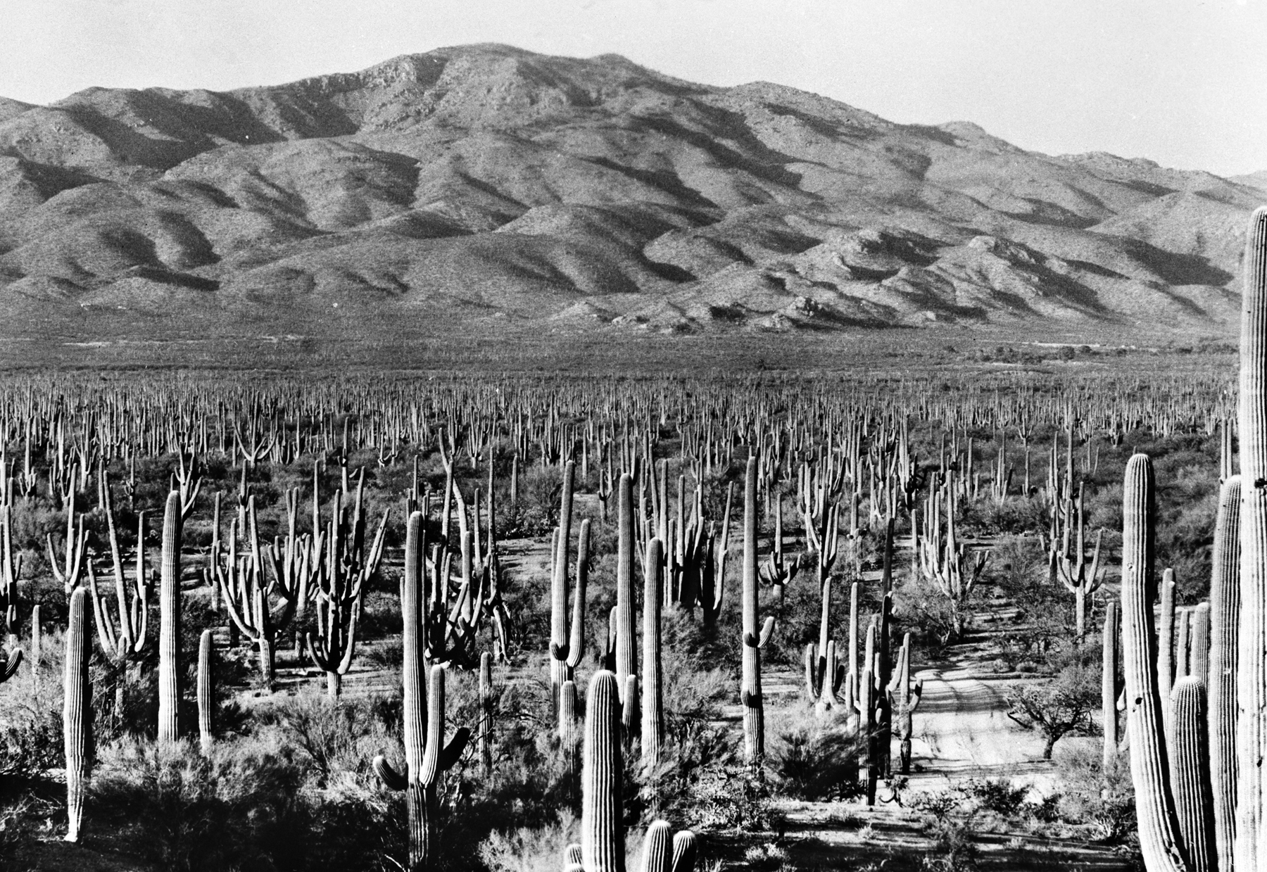 Saguaro National Park, East Unit, Southern Arizona - ca. 1935